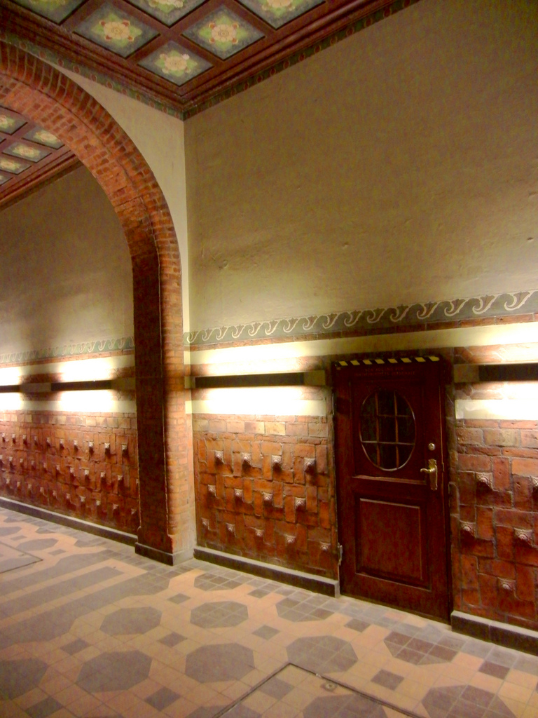 St. Petri Passage, a passageway through the Telefonhuset complex at Nørregade in Copenhagen, Denmark